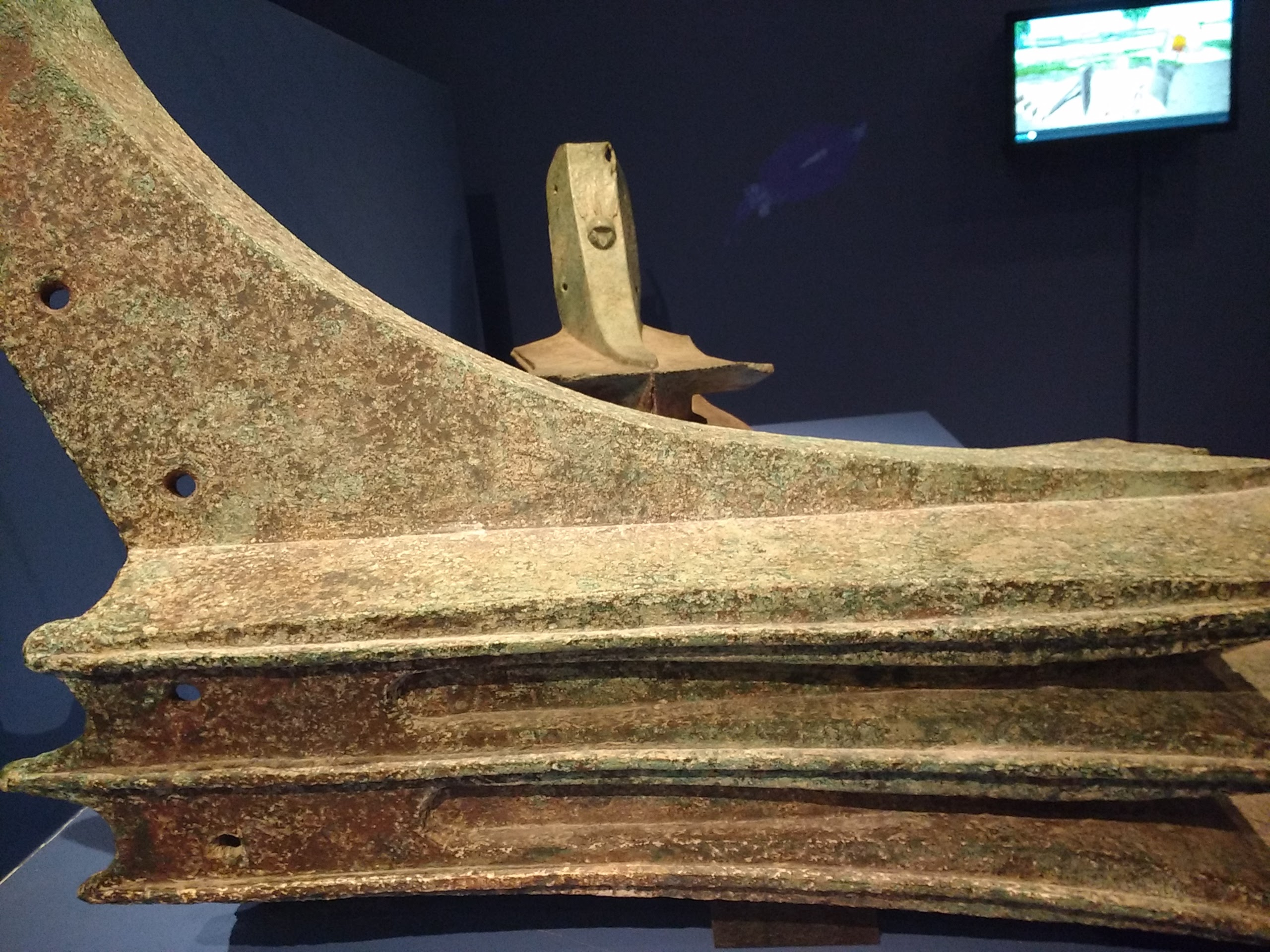 Lateral view of a bronze Carthaginian naval ram dated from or before the Battle of the Egadi Islands, First Punic War (241 B.C.). in 2010 at a depth of 80 meters. Shows damage in the form of V-shaped scratches, attributed to frontal collision(s) with Roman ships (ram against ram). A single line of Punic letters with 35 characters, offered as a supplication to the god Baal, is present.